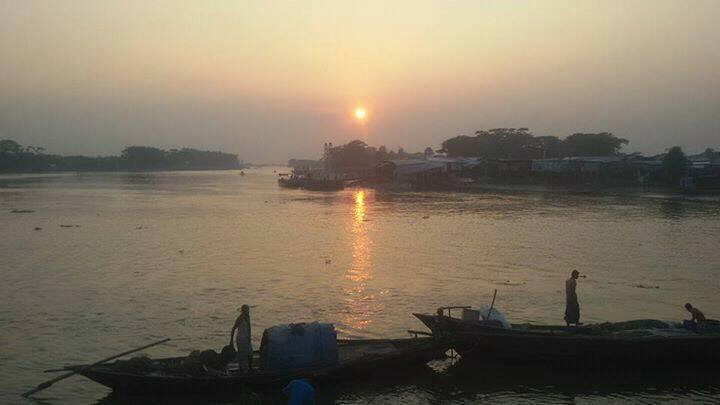 Moju Chowdhury Hat commonly known as mch it is a tourist attractions and tourism in the Bangladesh potential the best travel voyage of the most popular place in the south-estern Bangladesh, a tourist destination in the lakshmipur City, it's 12km away from lakshmipur municipality, very nice sunset place and attractive place for all bangladeshi people,s